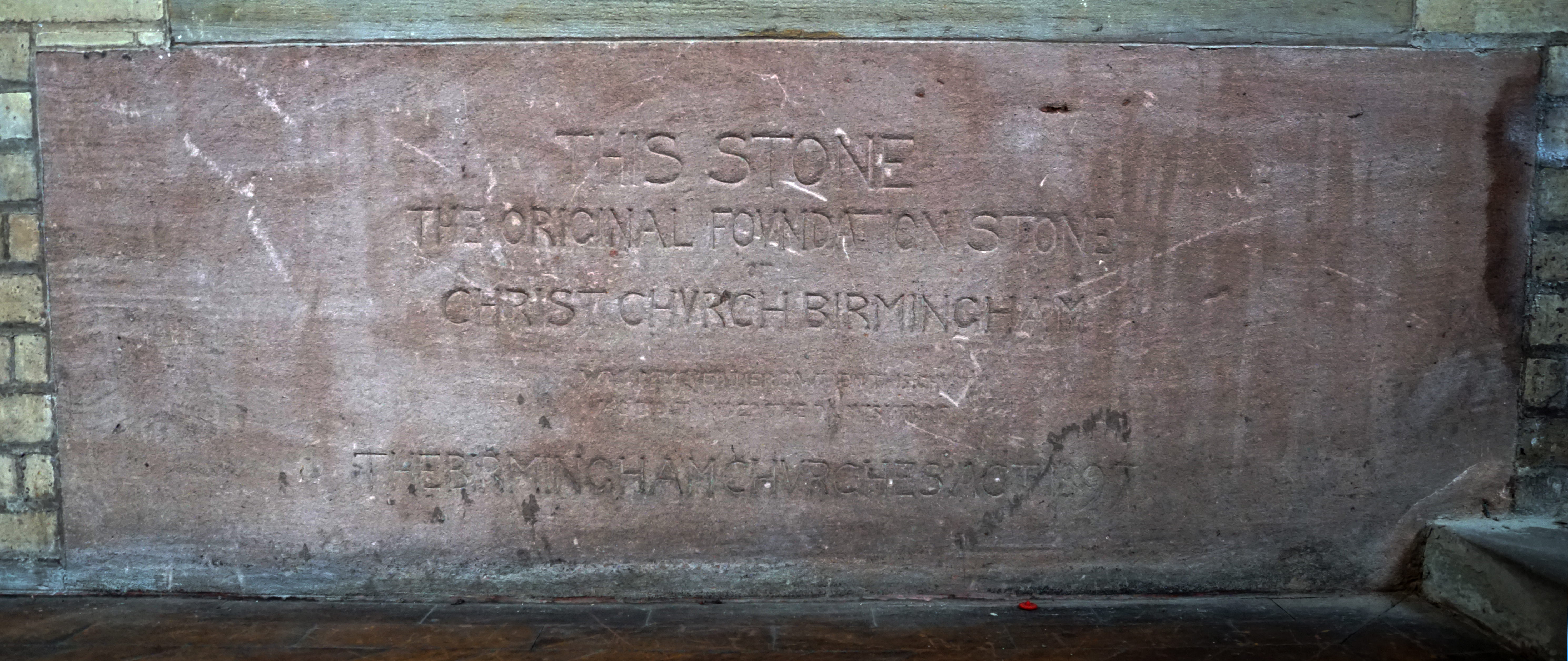 Foundation stone from Christ Church, Birmingham, England, now in St Agatha's Church, Sparkbrook which contains a number of artefacts from Christ Church (demolished in 1899).